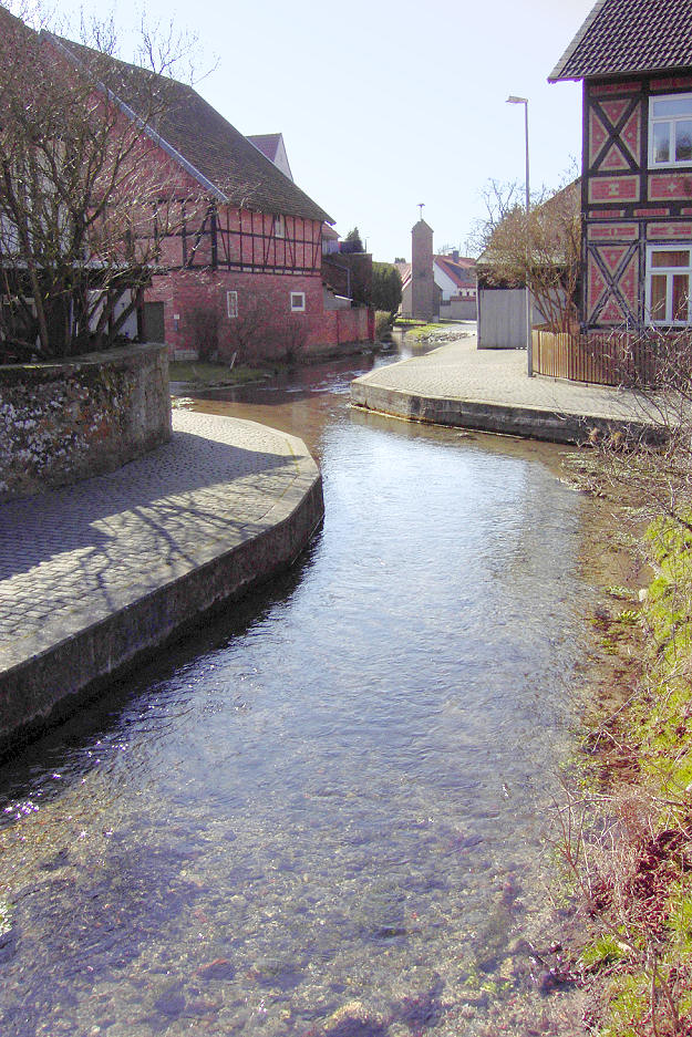 The Wabe river in Erkerode